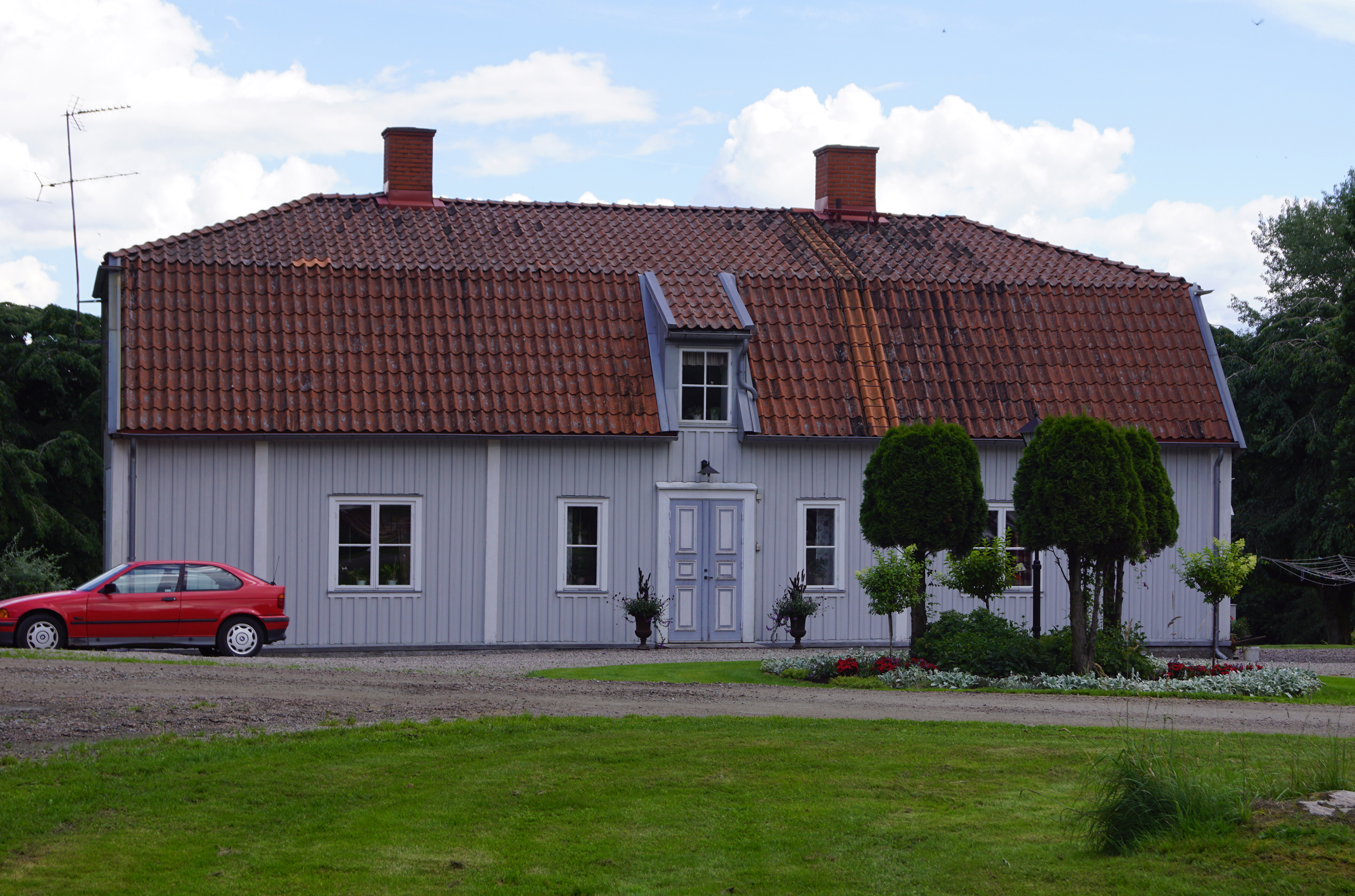 Kilanda seat farm i Kilanda socken, Ale Municipality, Sweden.